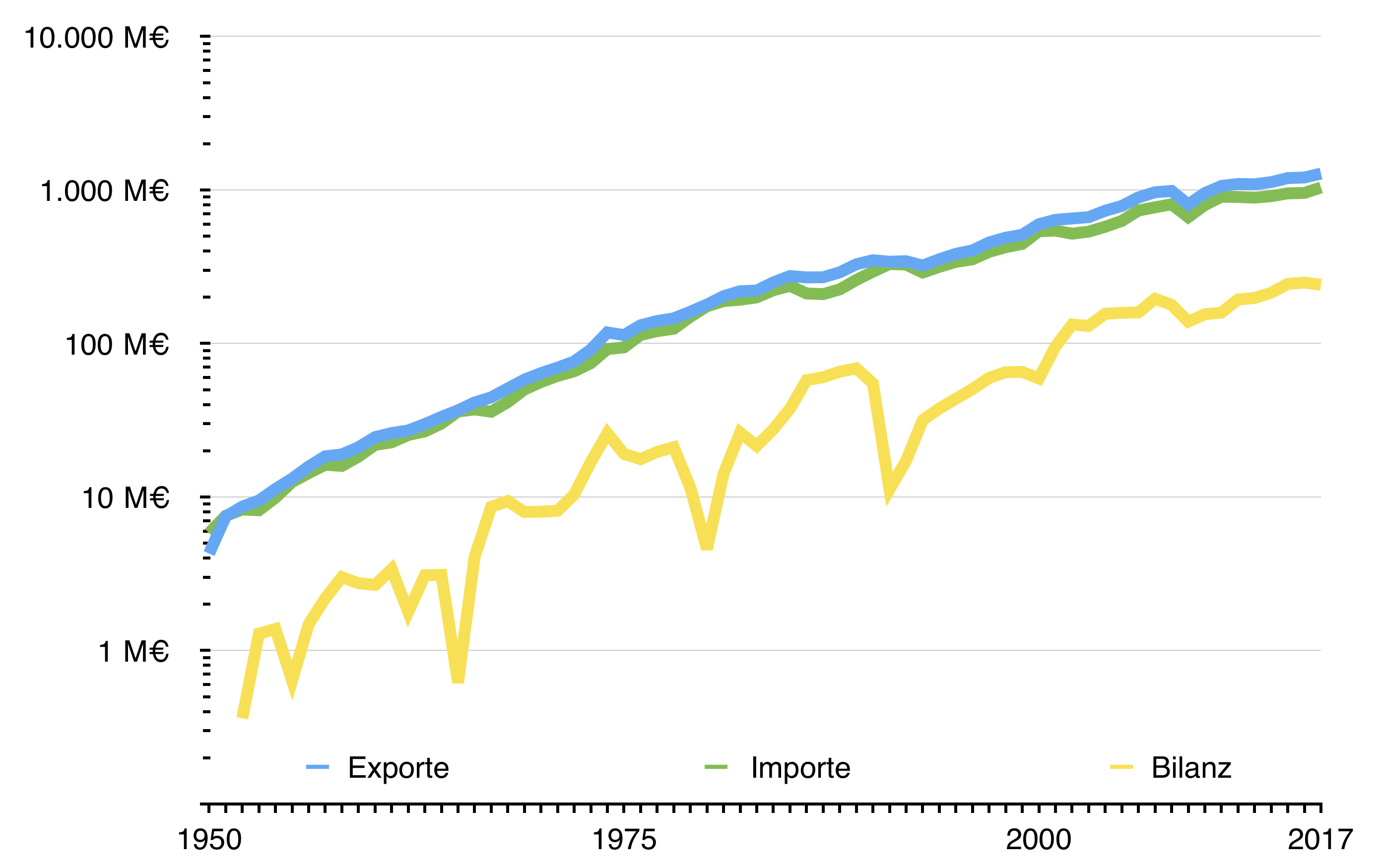 German trade balance